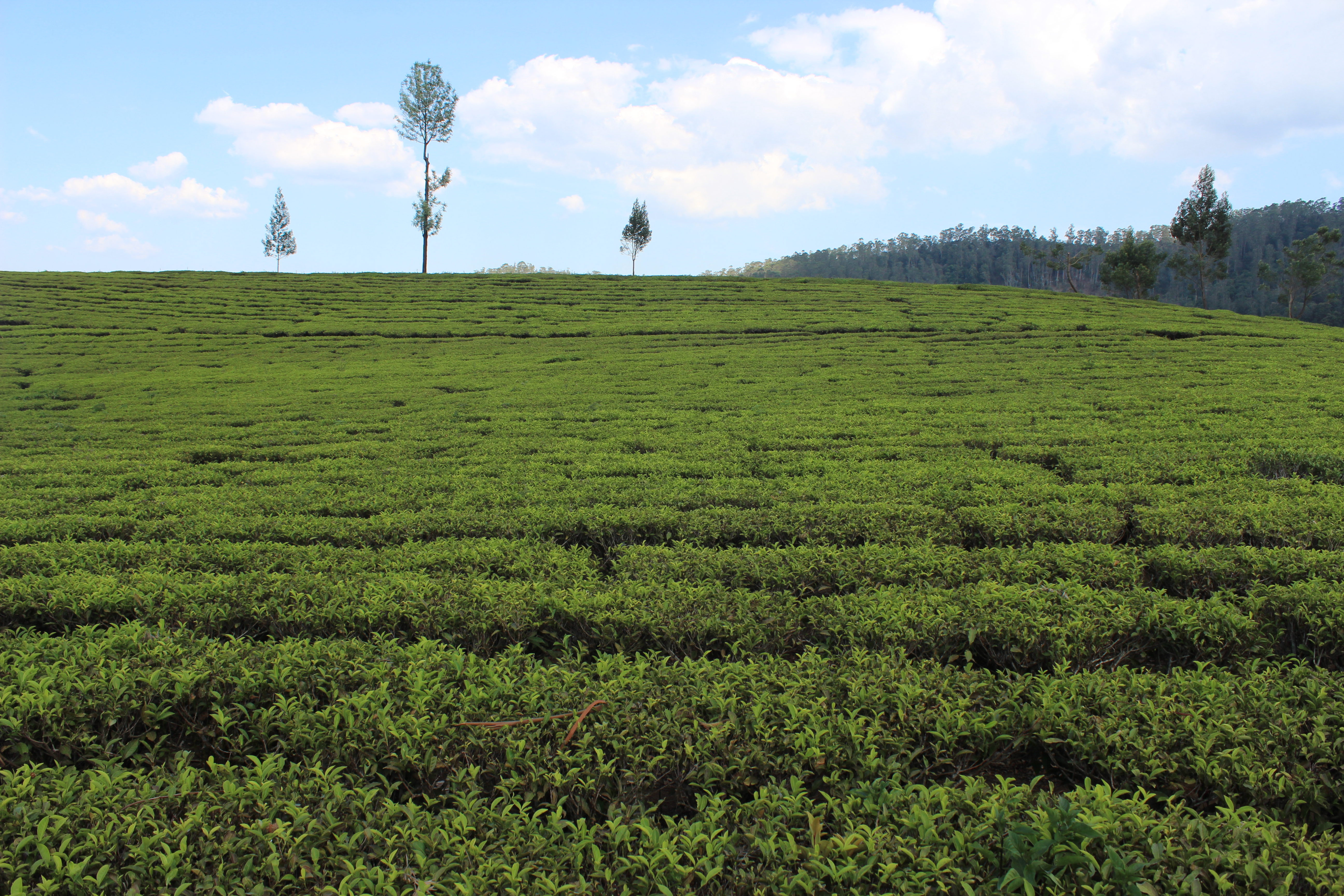 Tea Estate in Ooty, Tamil Nadu